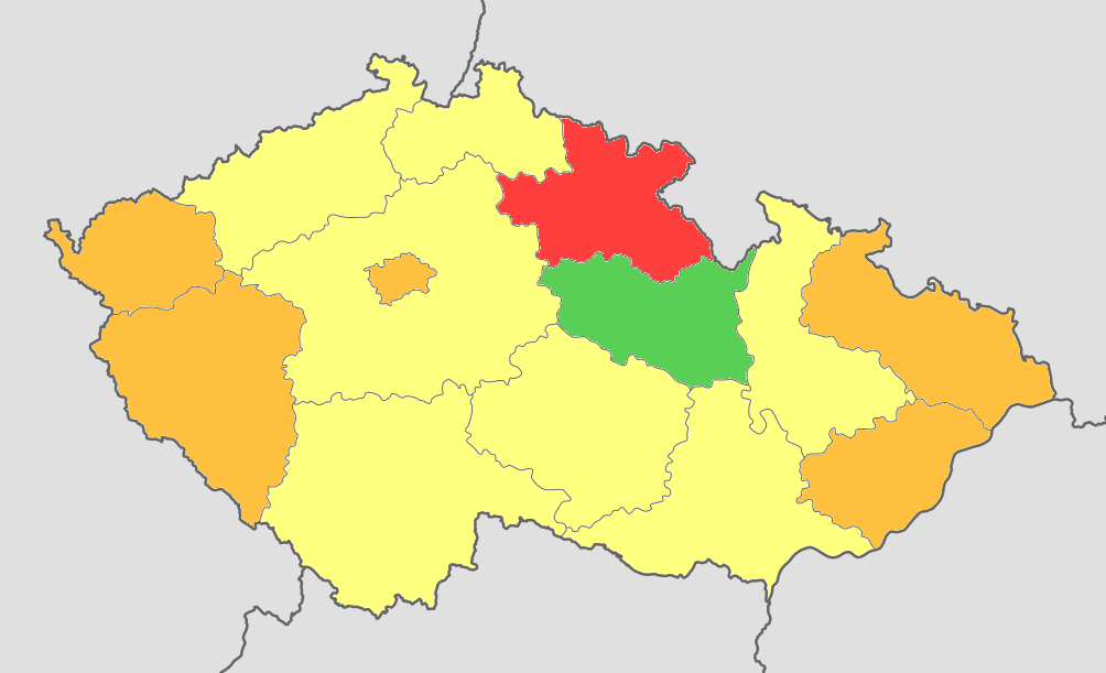 Data is from Eurostat